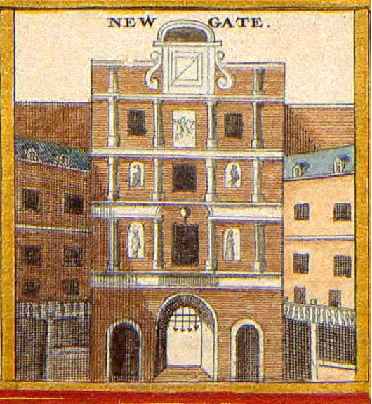 "New Gate" (Newgate), a crop of a 1690 map of London with boxed illustrations of the gates of below plan of city.